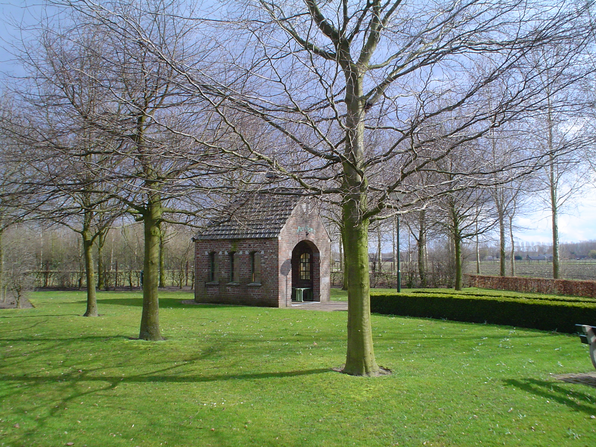 Chapel at the Herscheweg near Liempde, the Netherlands.